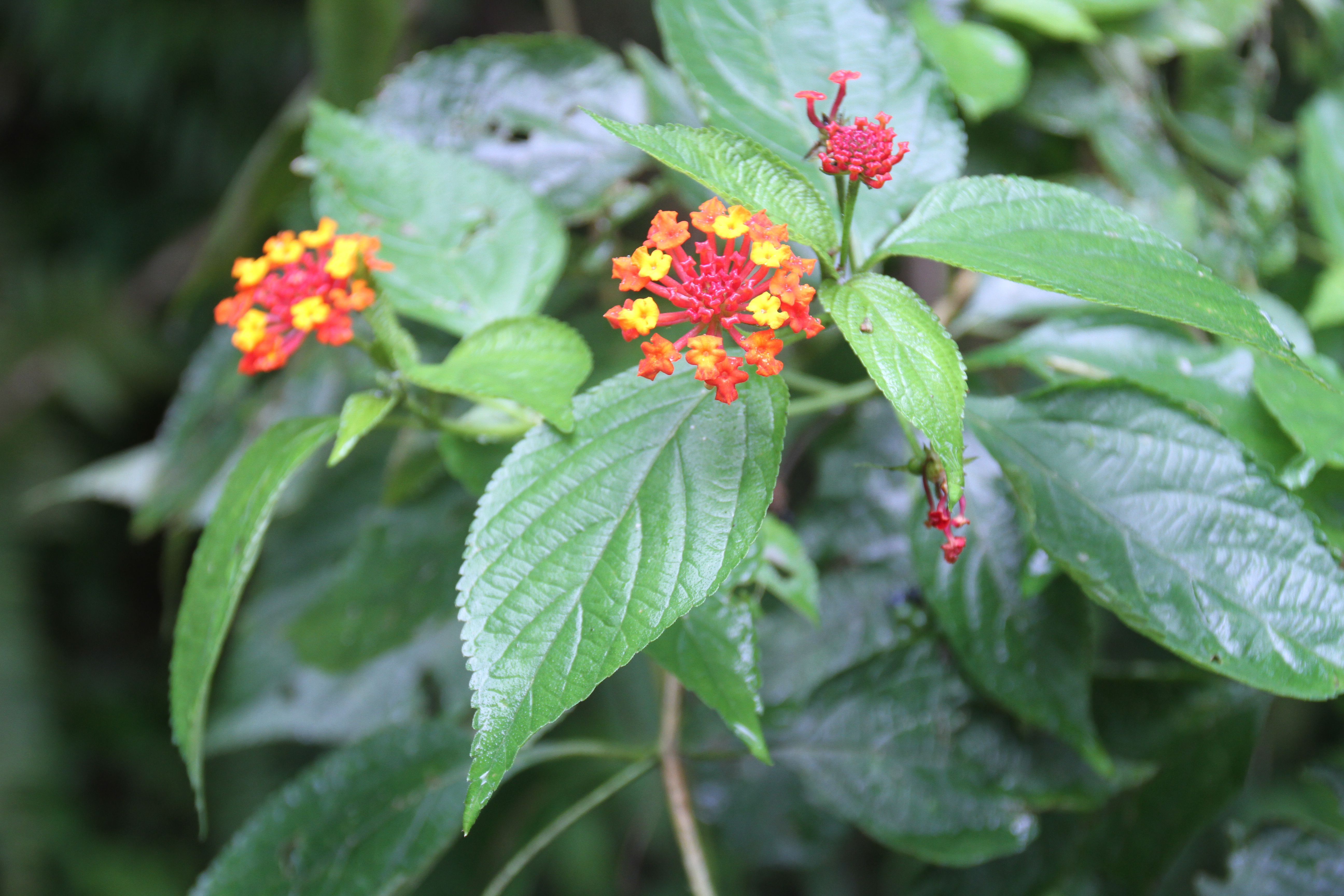 Lantana scabrida, in the El Yunque National Forest, eastern Puerto Rico.